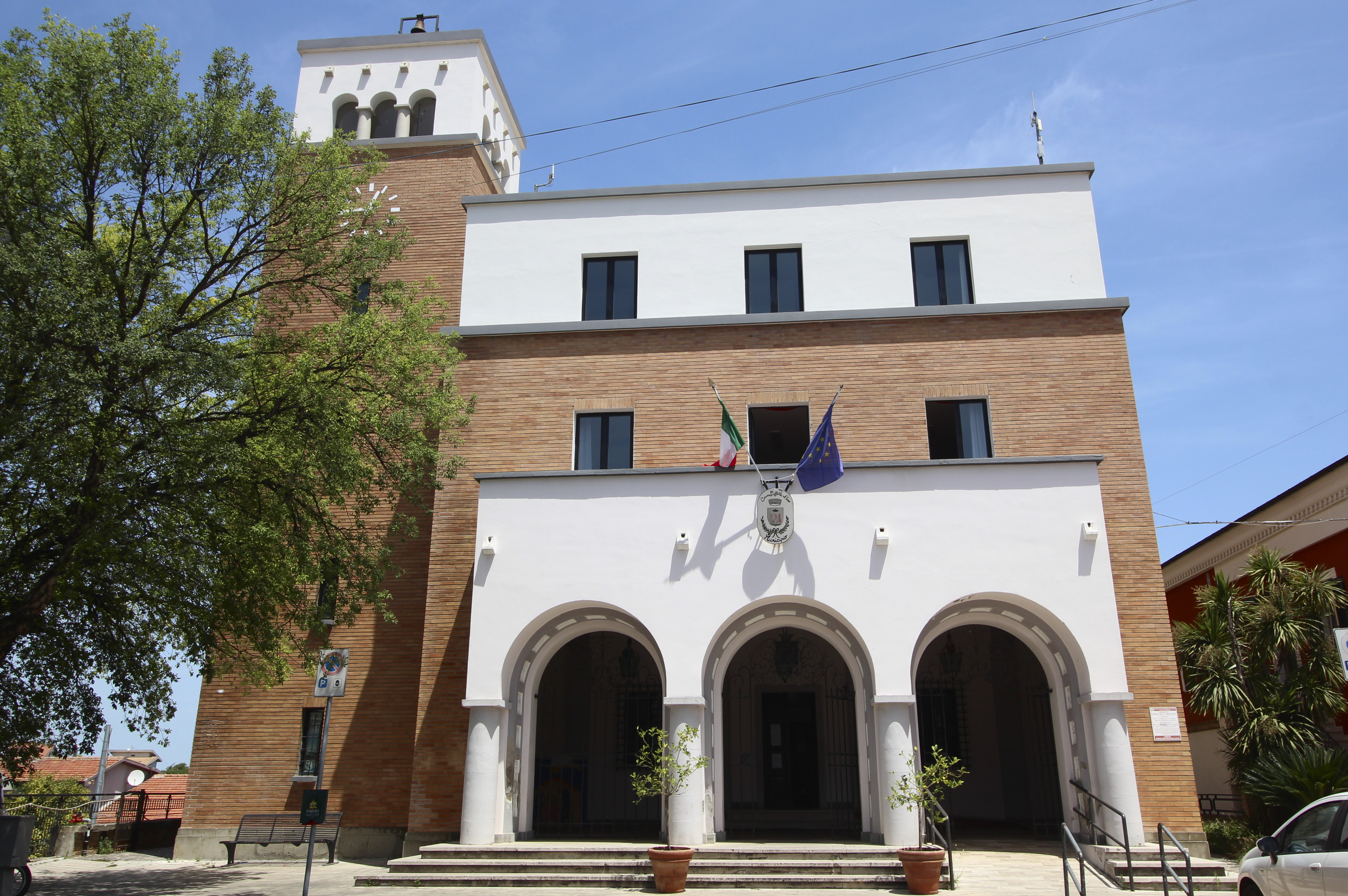 town hall (Municipio), Cappelle sul Tavo, Province of Pescara, Abruzzo, Italy